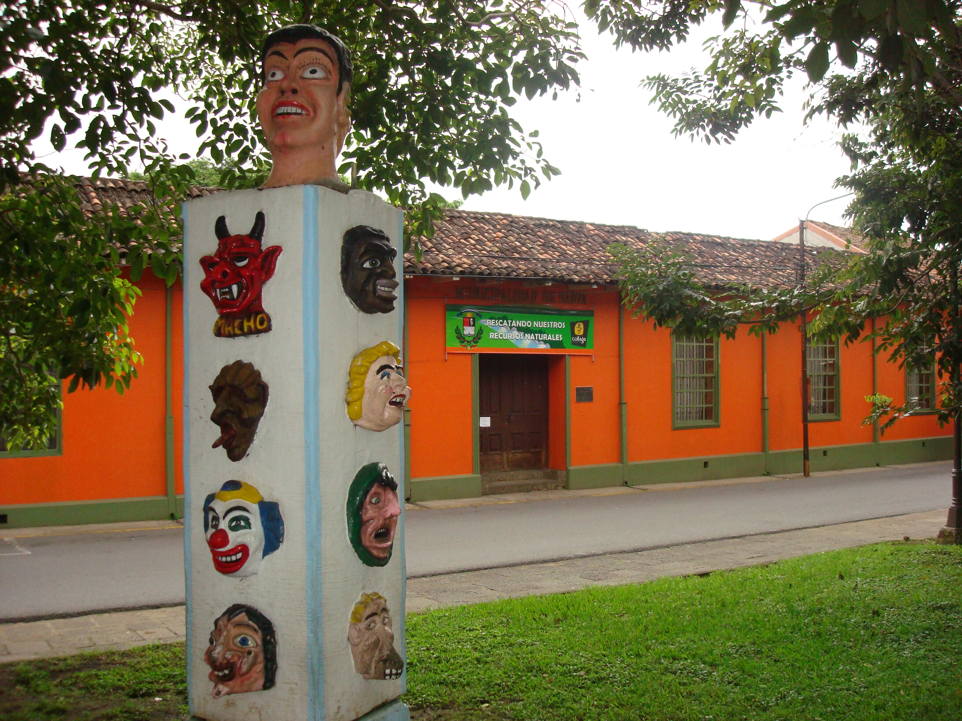 Municipalidad de Barva